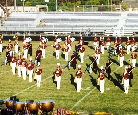 The Oakton High School (Oakton, VA) color guard performing with the Oakton Marching Cougars at the Lee-Davis Invitational competition (Lee-Davis High School, Mechanicsville, VA), fall 2001.